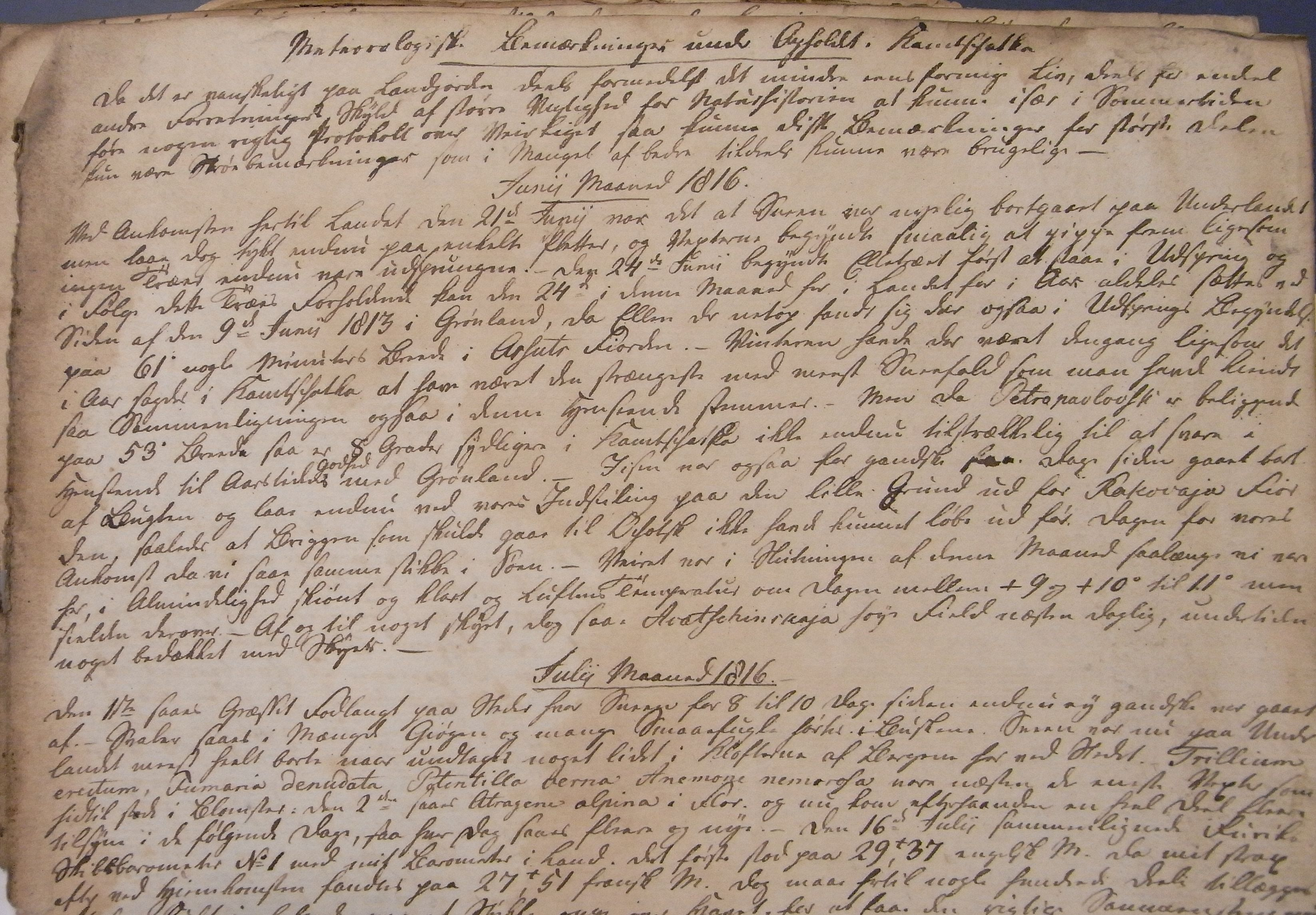 A page of Morten Wormskjold's original expedition records from Kamchatka 1817